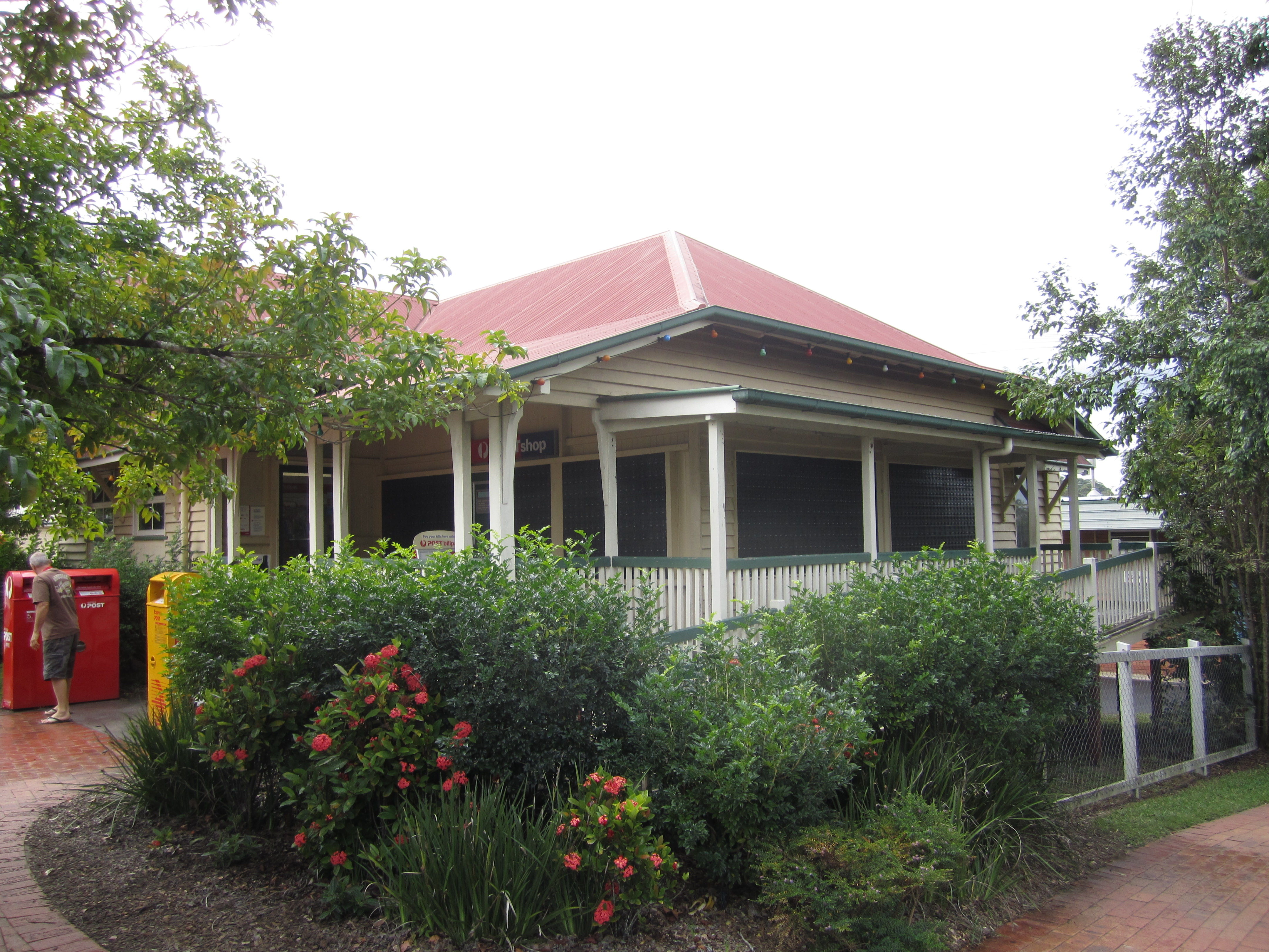 Post office in Cooroy, Queensland.